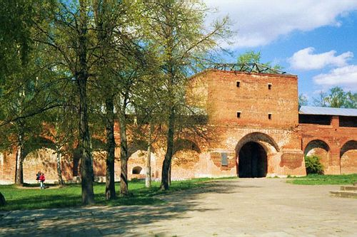 The north tower of the Zaraysk kremlin with gates in it, seen from inside the citadel. The tower (as well as the whole fortress) was kept in a rather good condition for hundreds of years, but slowly degraded during the soviet era. One can also see the wall of the fortress (it's inner side). Note that from inside the wall isn't as high as from outside, because the ground level is higher in the kremlin. Children are playing on swing. This swing in such a pathetic place is one of the touching details that everybody remember for years after visiting Zaraysk. The picture was made by user:Arseni and is free for use.